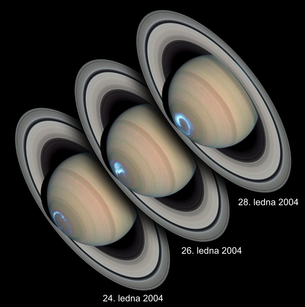 Czech version of this file.